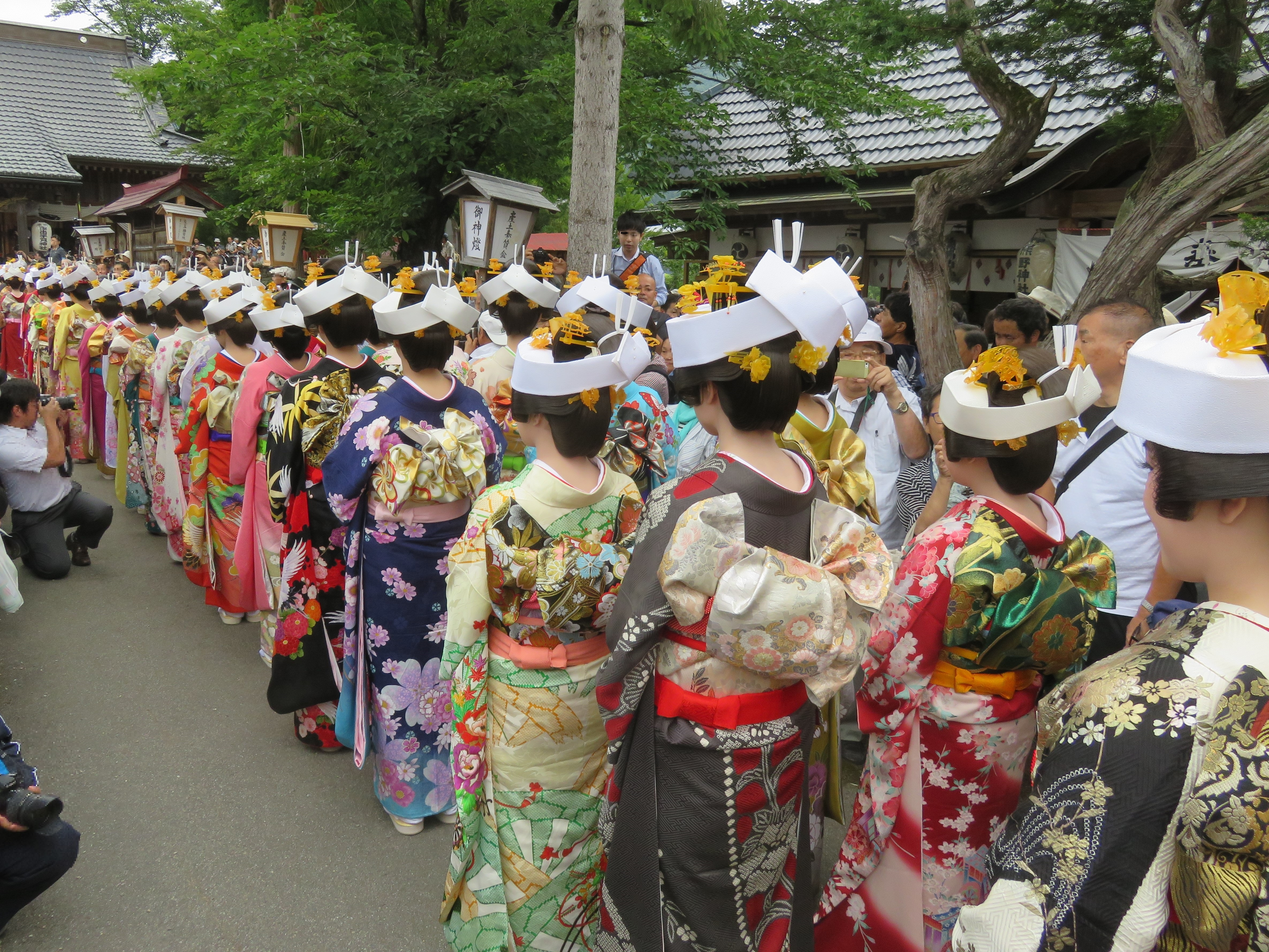 Aizu-Tajima Gionsai, Nanahokai, Fukushima pref., Japan